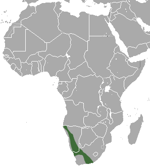 Western Rock Elephant Shrew (Elephantulus rupestris) range